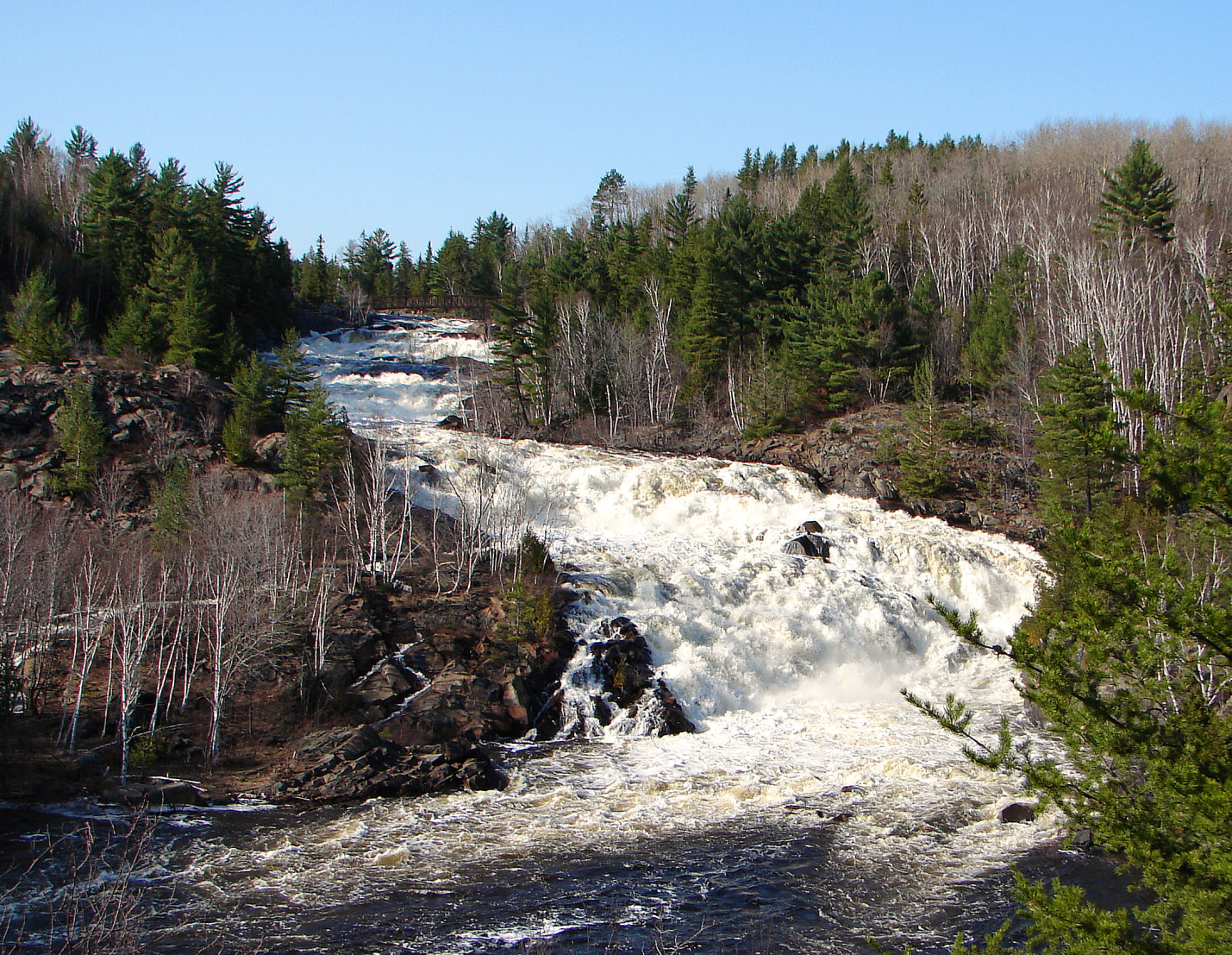 Onaping Falls as seen from the A.Y. Jackson Lookout, Greater Sudbury, Ontario, Canada